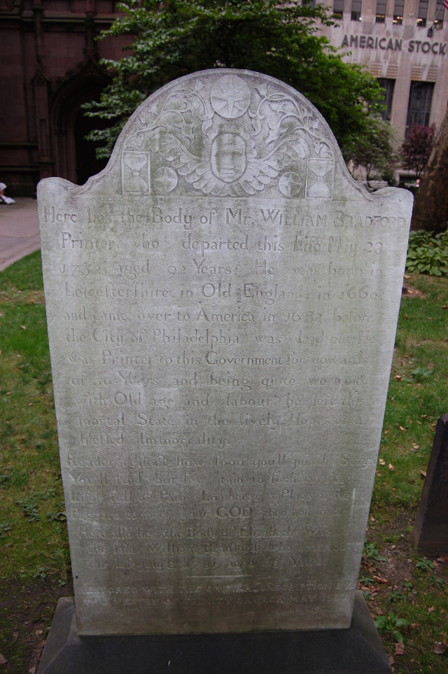 William Bradford grave at Trinity Church, Manhattan.